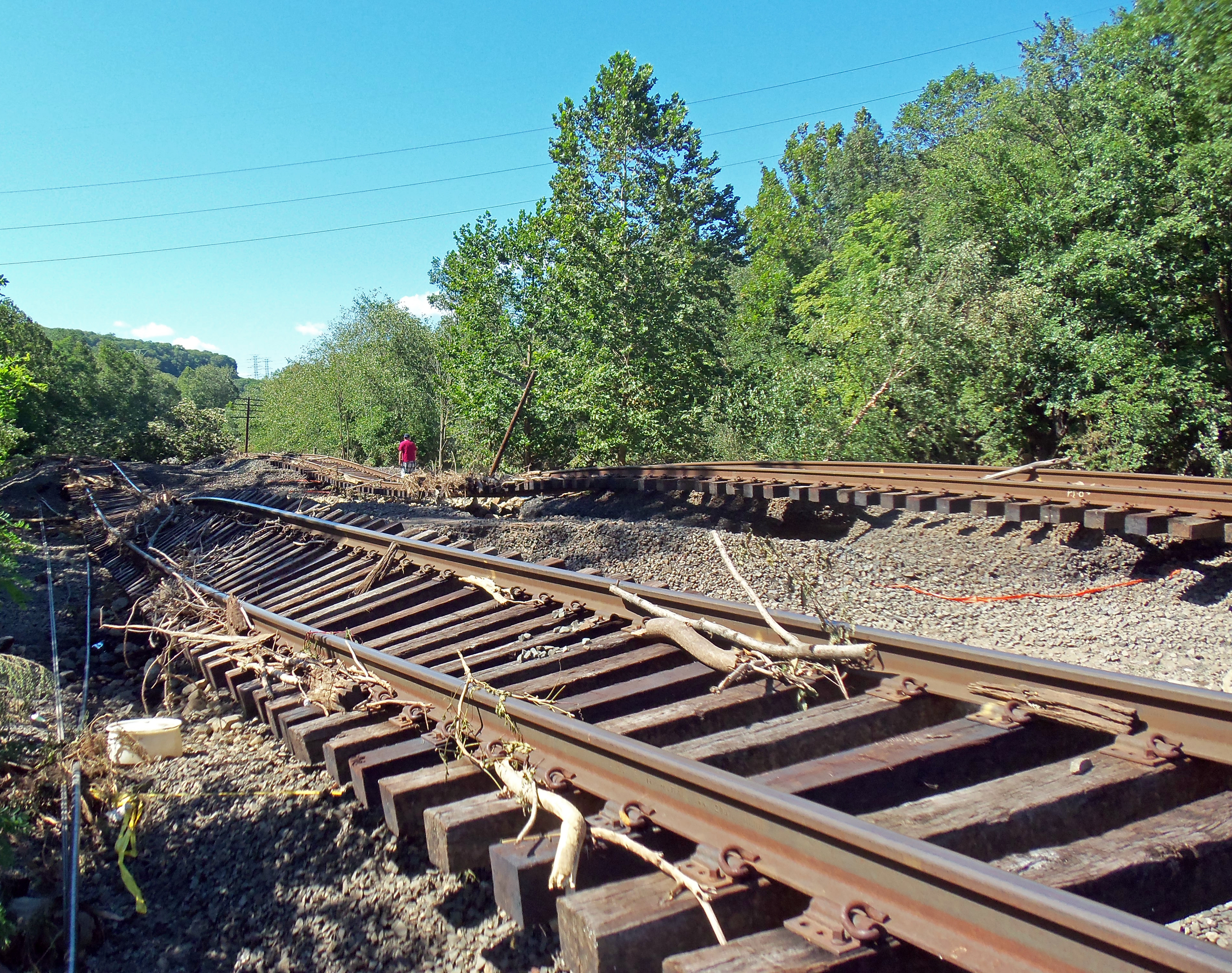 Tracks of the Metro-North Port Jervis Line damaged by flooding from the nearby Ramapo River during Hurricane Irene south of Sloatsburg, NY, USA